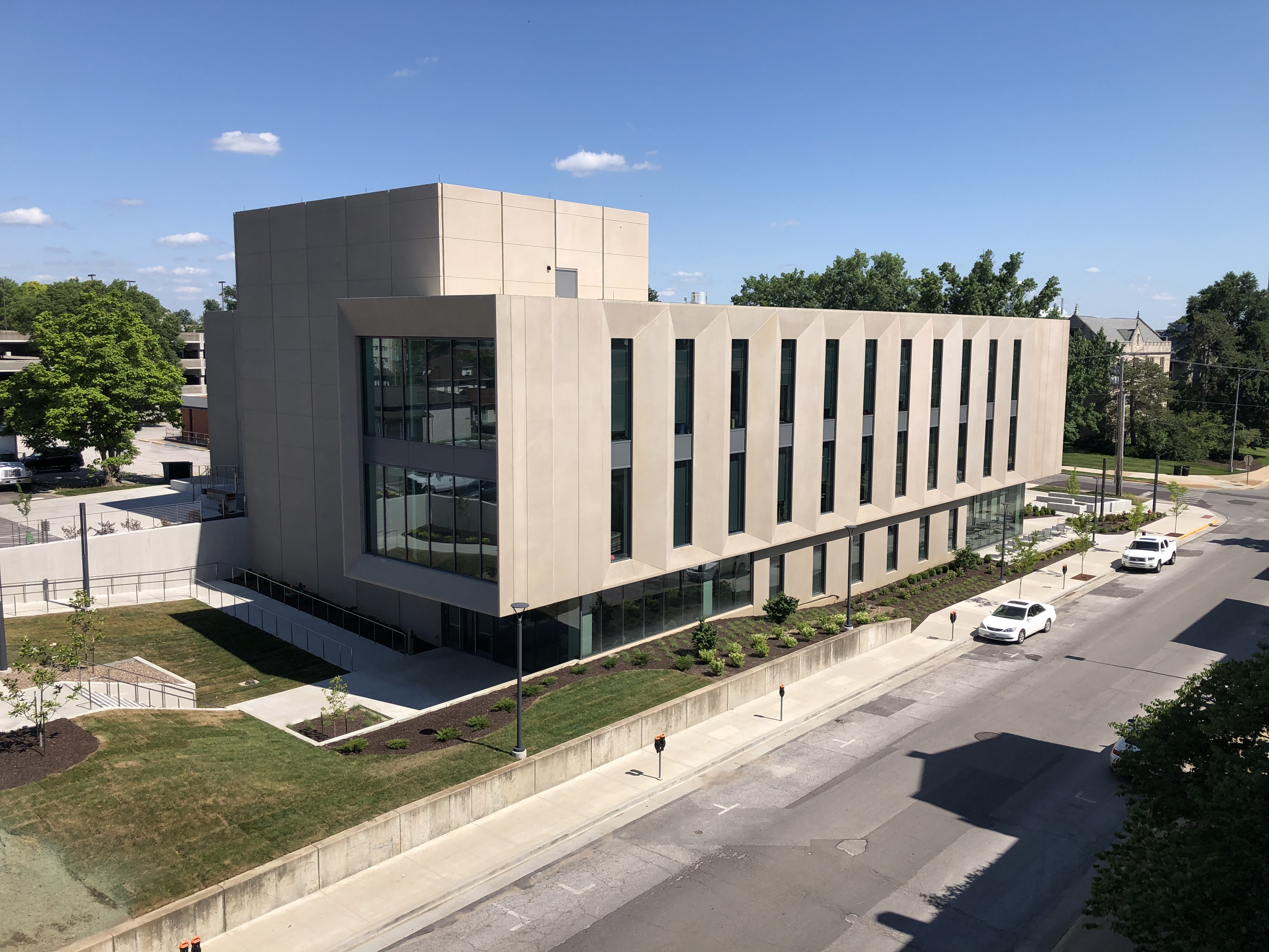 A view of Sinquefield Music Center taken from Hitt Street Parking Structure in June 2020.